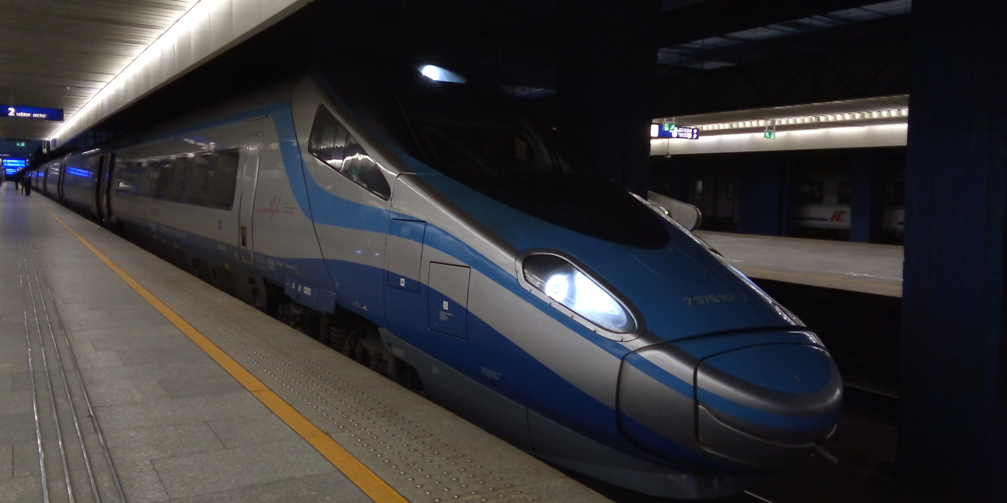 Alstom EMU250 Pendolino train waiting for departure from Warsaw Central railway station (Warszawa Centralna), Poland Аҧсшәа: Pociąg Alstom EMU250 Pendolino oczekujący na odjazd ze stacji Warszawa Centralna